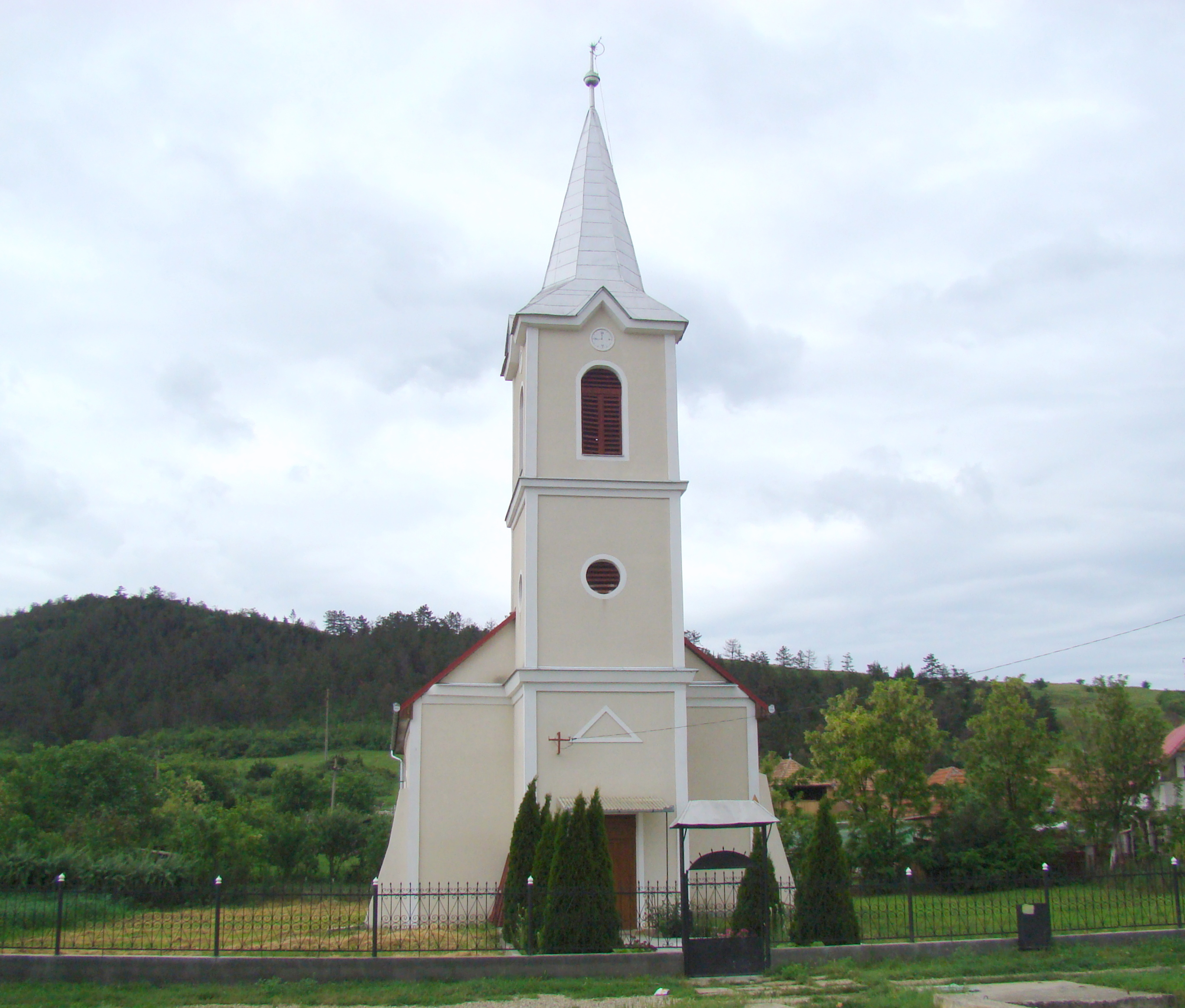 Reformed church in Hădăreni, Mureş county, Romania